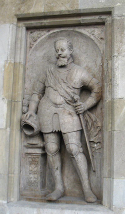 Nicolaus Pálffy